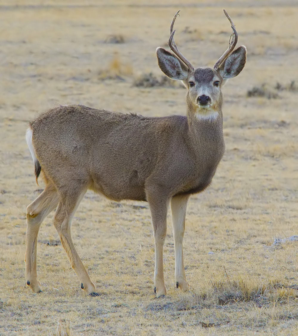 Black-tailed Deer / Mule Deer